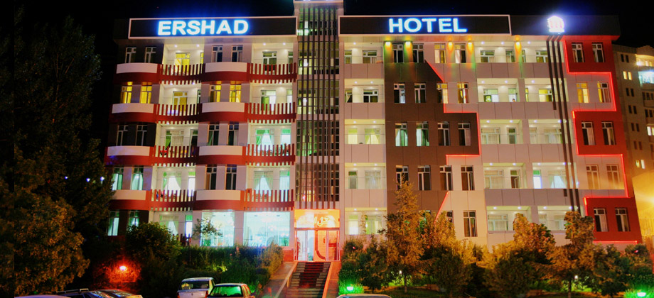 Ershad Spa & Apt hotel, Sareyn, Iran